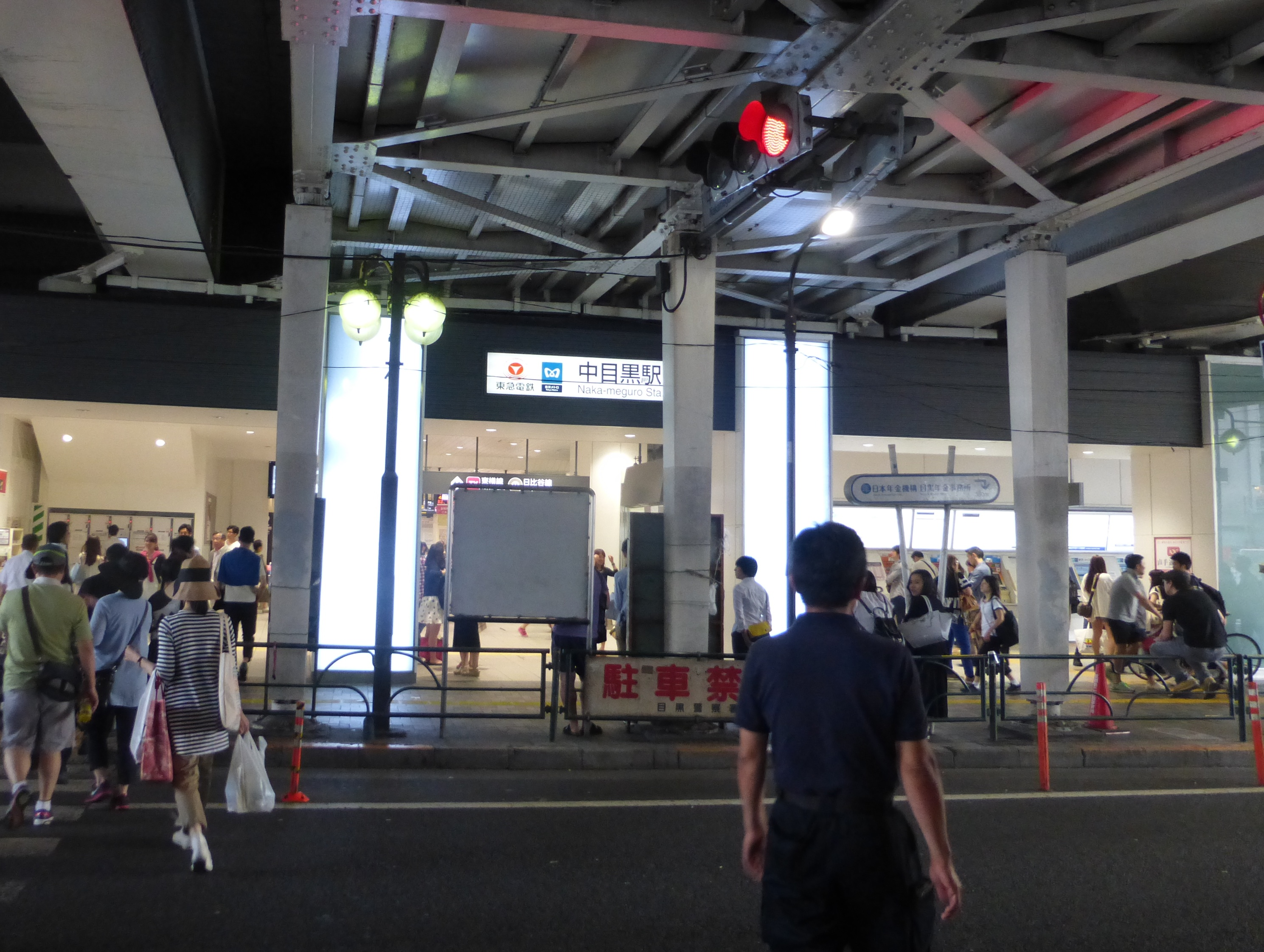 Naka-Meguro Station entrance